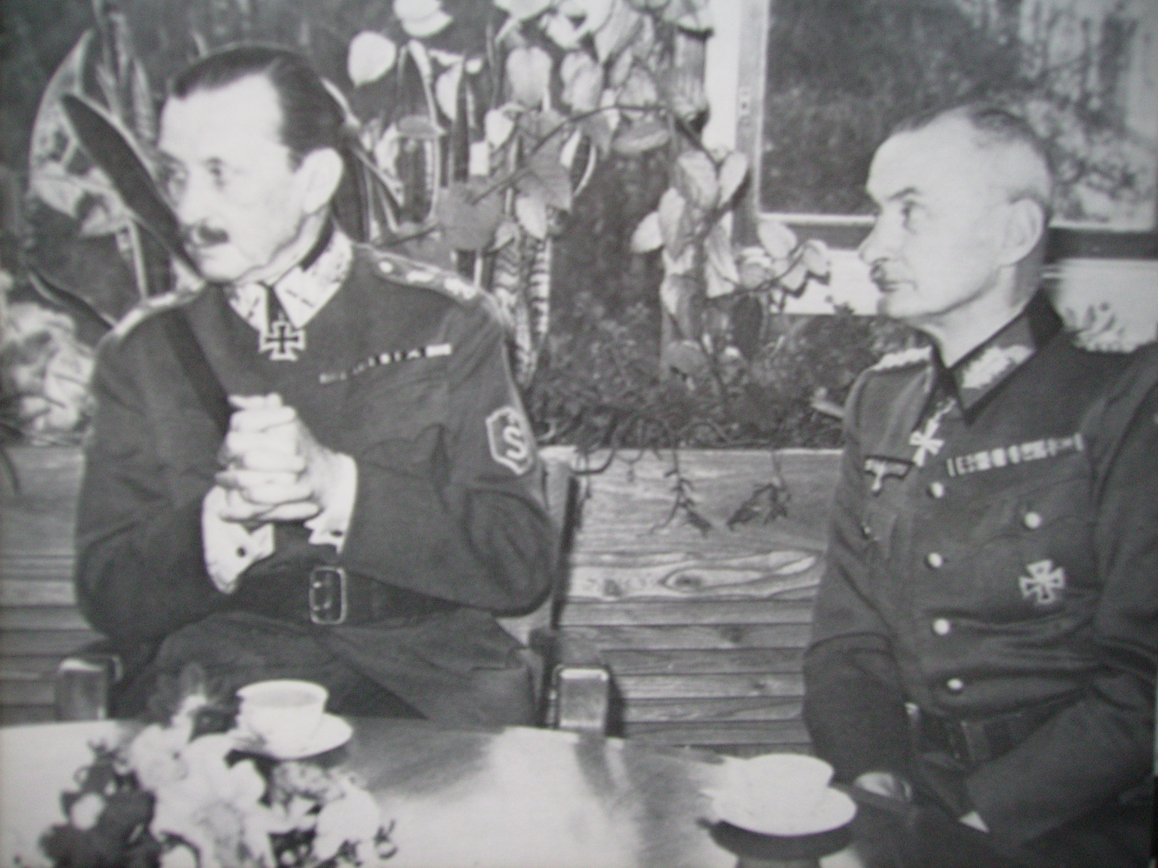 Woldemar Erfurth with Gustaf Mannerheim during the Second World War.